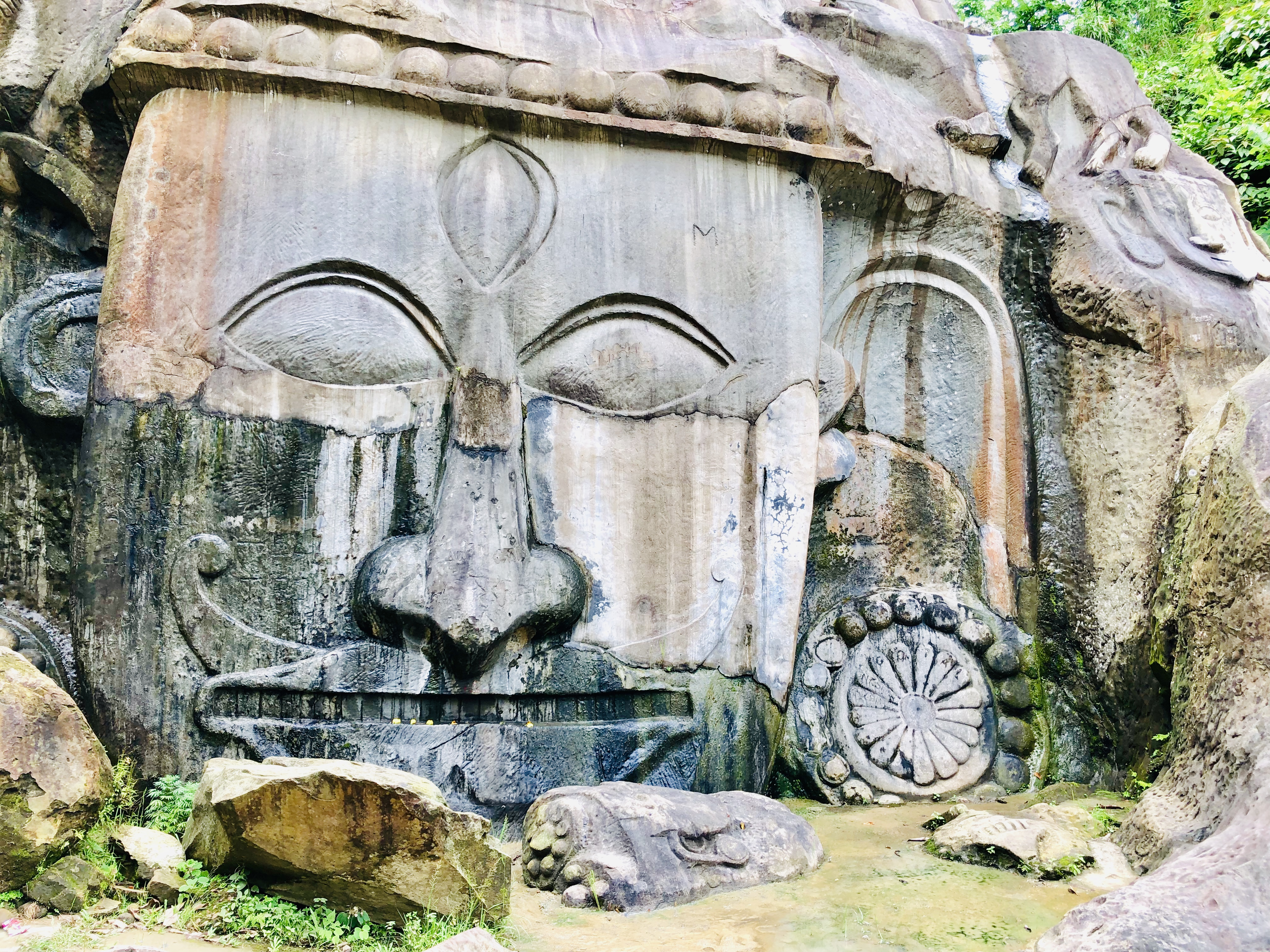 Hindu God being depicted in stone